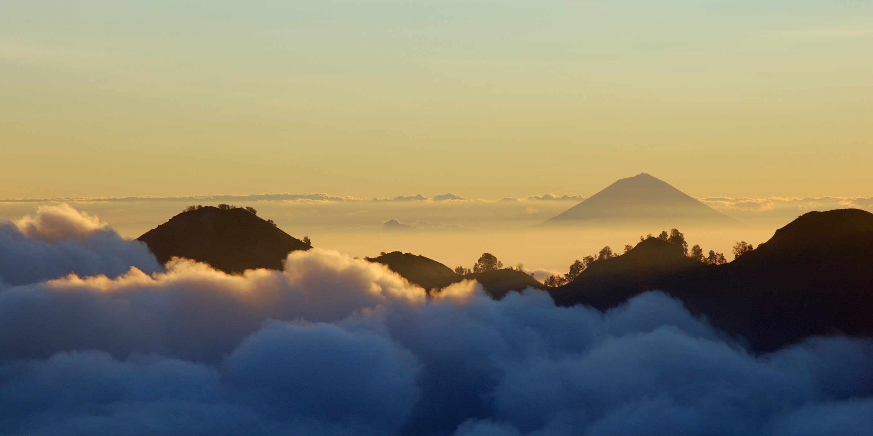 Bali's Gunung Agung seen at sunset from Gunung Rinjani, Lombok Island, Indonesia